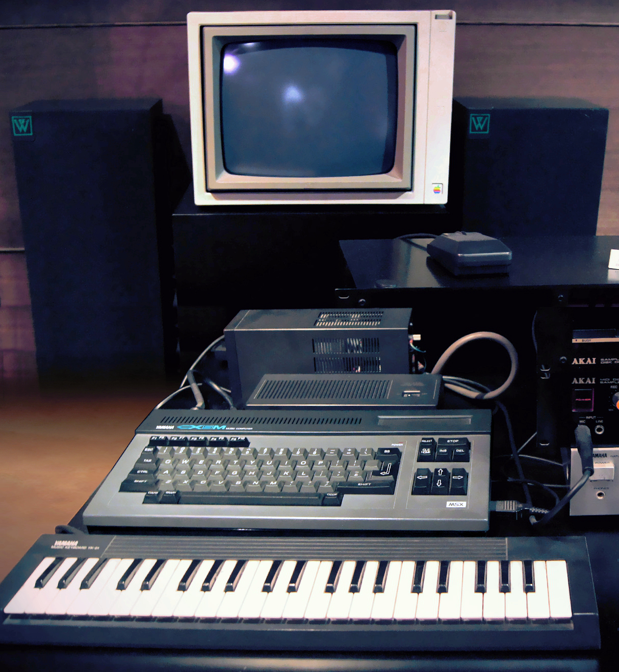 Yamaha CX5M Music Computer set Yamaha YK-01 Music Keyboard Yamaha CX5M Music Computer Yamaha SFG-01 FM Sound Synthesizer Unit (pre-built) AC power supply unit (dedicated) unknown unit (data recorder ?) Akai S612 set Akai MD280 Sampler Disk Drive Akai S612 MIDI Digital Sampler Audio amplifier: Yamaha Natural Sound Stereo Amplifier A-??? Audio monitor CRT monitor In the Musée des Instruments de Musique (Museum of Musical Instrument) in Brussels, Belgium.